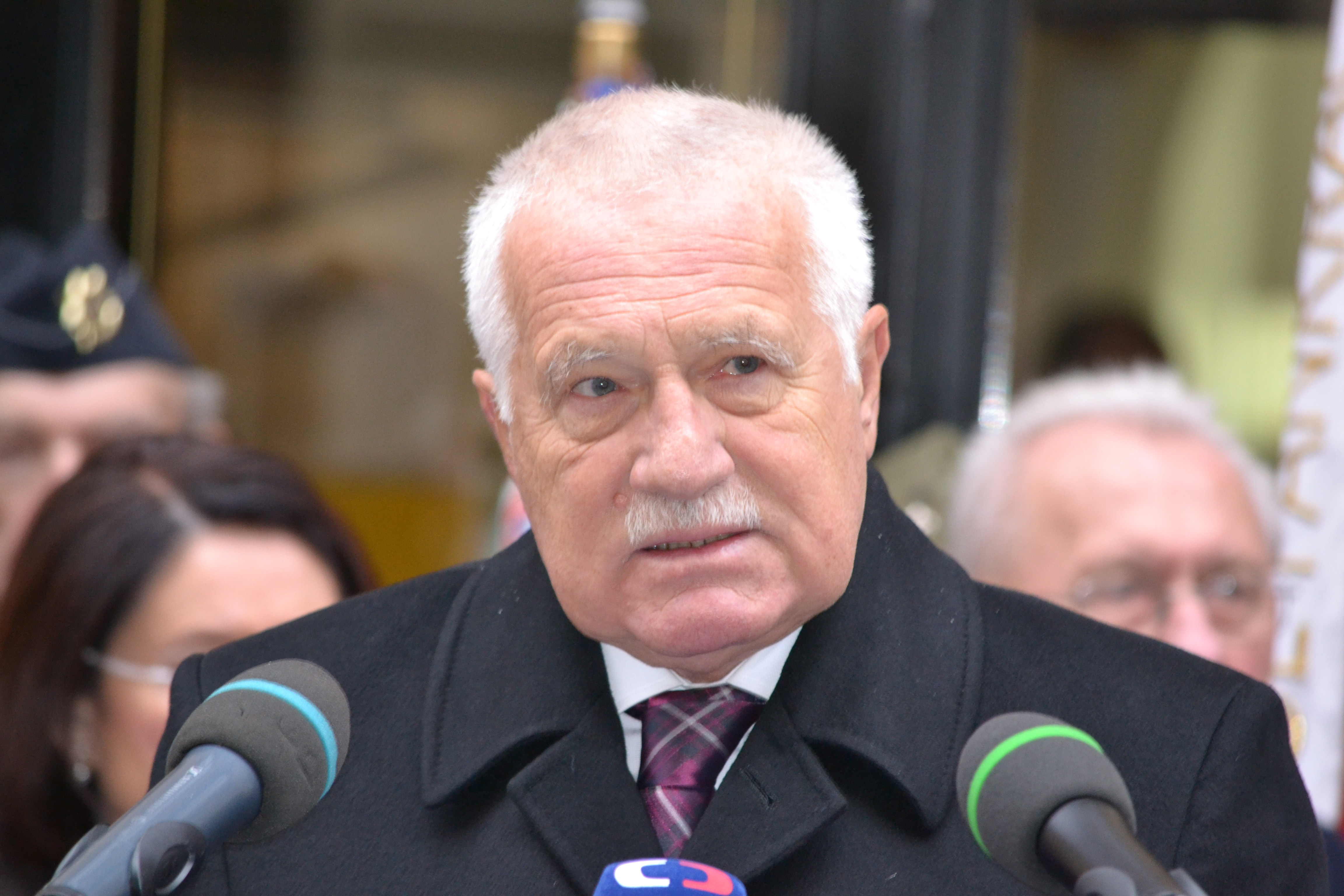 Václav Klaus, President of the Czech Republic